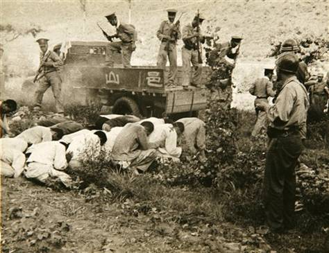 This photograph by the U.S. Army, the execution of South Korean political prisoners by the South Korean military and police at Daejeon, South Korea, over several days in July 1950